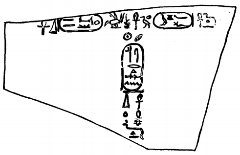 1907 drawing by G. Legrain of the apocryphal Rubensohn plaquette discovered on Elephantine and mentioning Khutawyre Wegaf and a king Sewosret. Bibliography: Georges LEGRAIN, « Notes d’inspection. XLIX-LVI », ASAE 8, 1907, p. 248-275